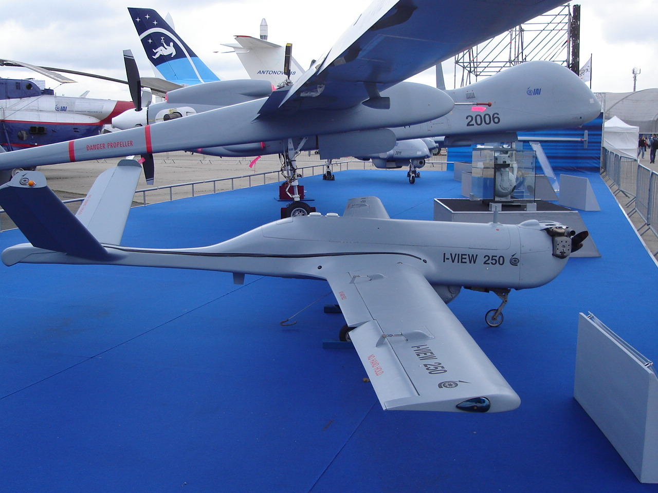 I-View 250 unmanned aircraft by Israel Aerospace Industries at the 2007 Paris Air Show. Behind and above it is the much larger pusher drone Heron-TP aka Eitan